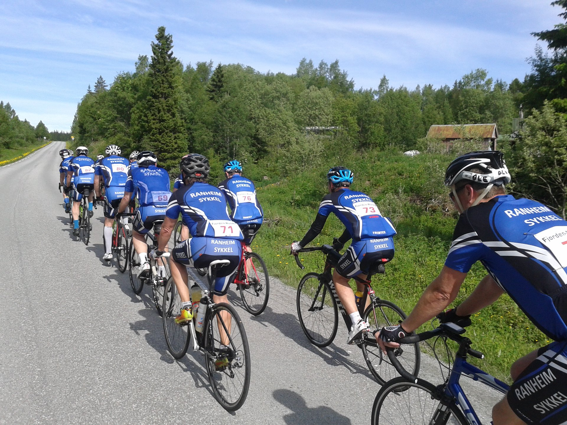 Group of cyclists from the Trondheim-based Norwegian sports team Ranheim IL during the race "Trondheimsfjorden Rundt" in 2018.